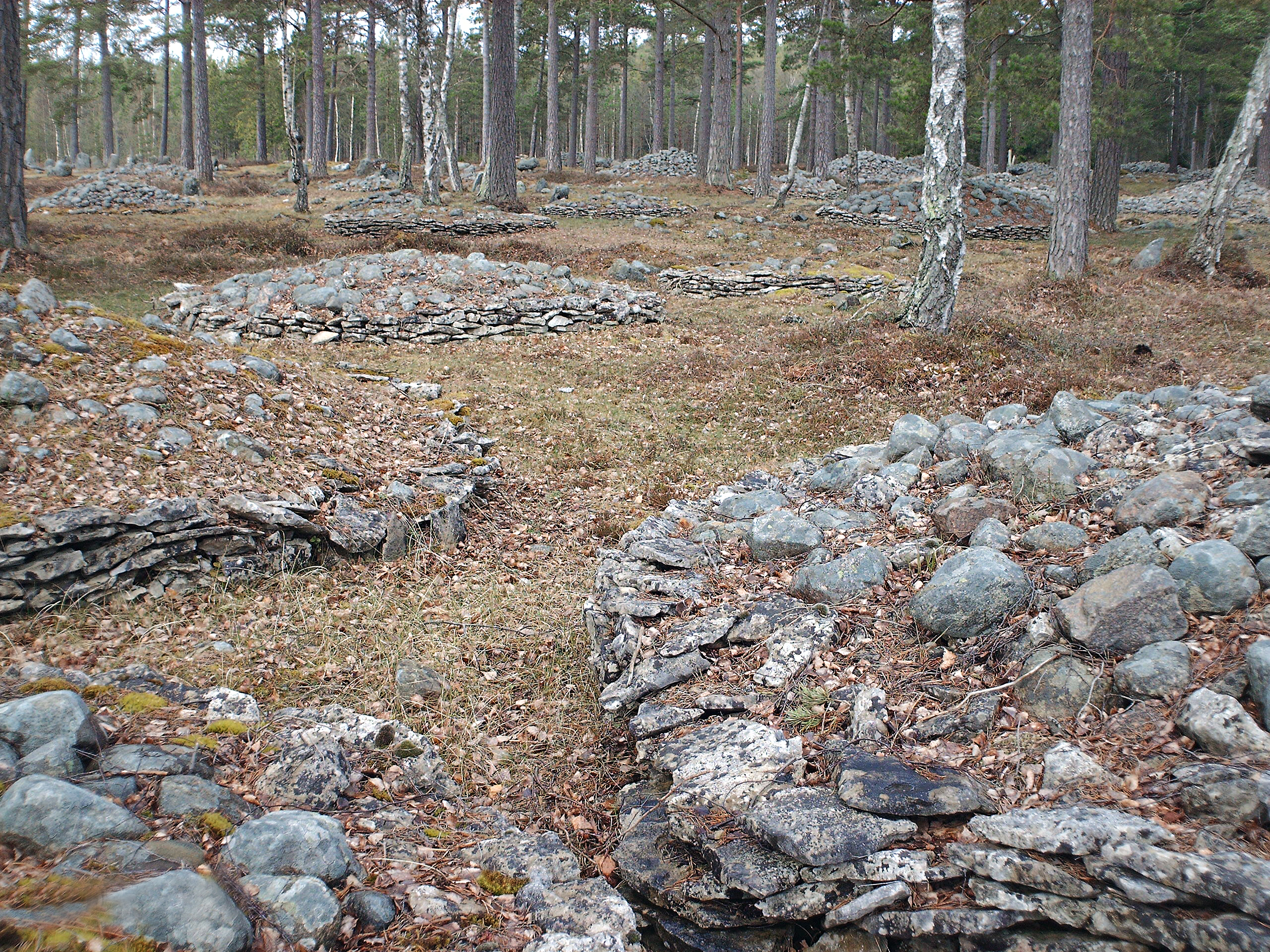 Trullhalsar, Gotland, Sweden.